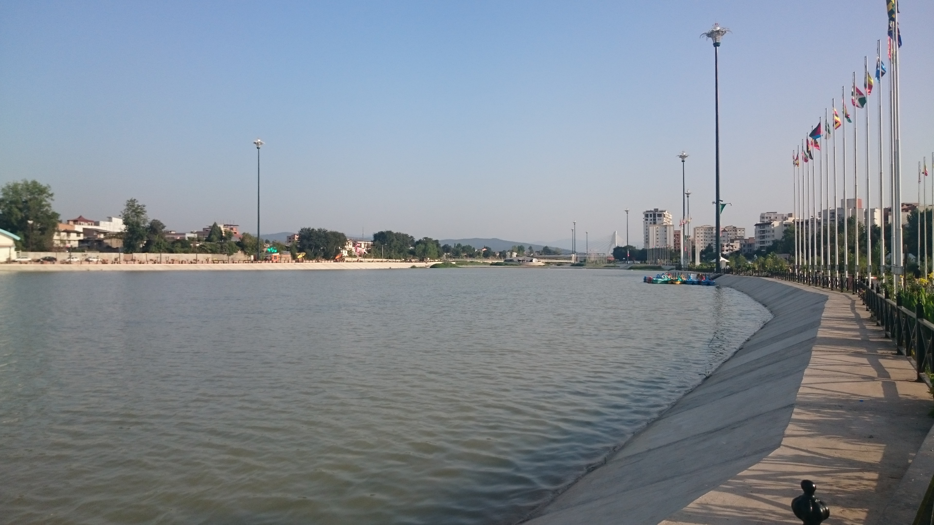 Tajan river in Sari Iran